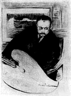 Portrait of Maxime Maufra